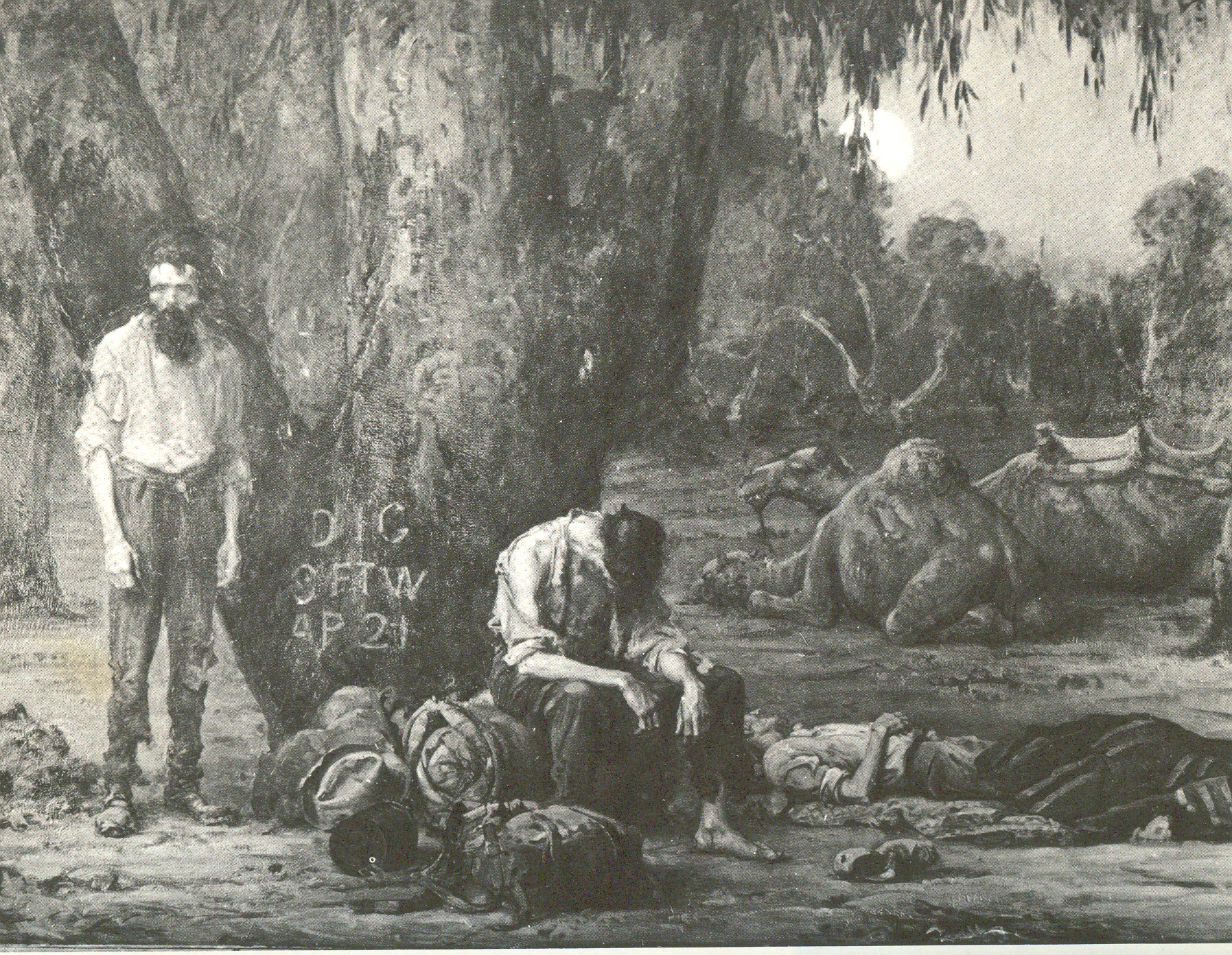 Arrival of Burke, Wills and King at the deserted camp at Cooper's Creek, Sunday evening, 21st April 1861, National Gallery of Victoria, Melbourne. Note: Inspired by the events of Australian history, Longstaff’s “Arrival of Burke, Wills and King...” depicts the three Australian men among the rough bush landscape. The composition is evenly balanced due to the different placement of the men and trees. Whilst the dark brown and green colours add an element of survival and danger of the men as they are isolated in bushland with little resources. Longstaff choose to paint this work, to show an audience of the strong struggle that these men had to go through, relating it to the Australian human spirit similar to those diggers who fought in the wars.